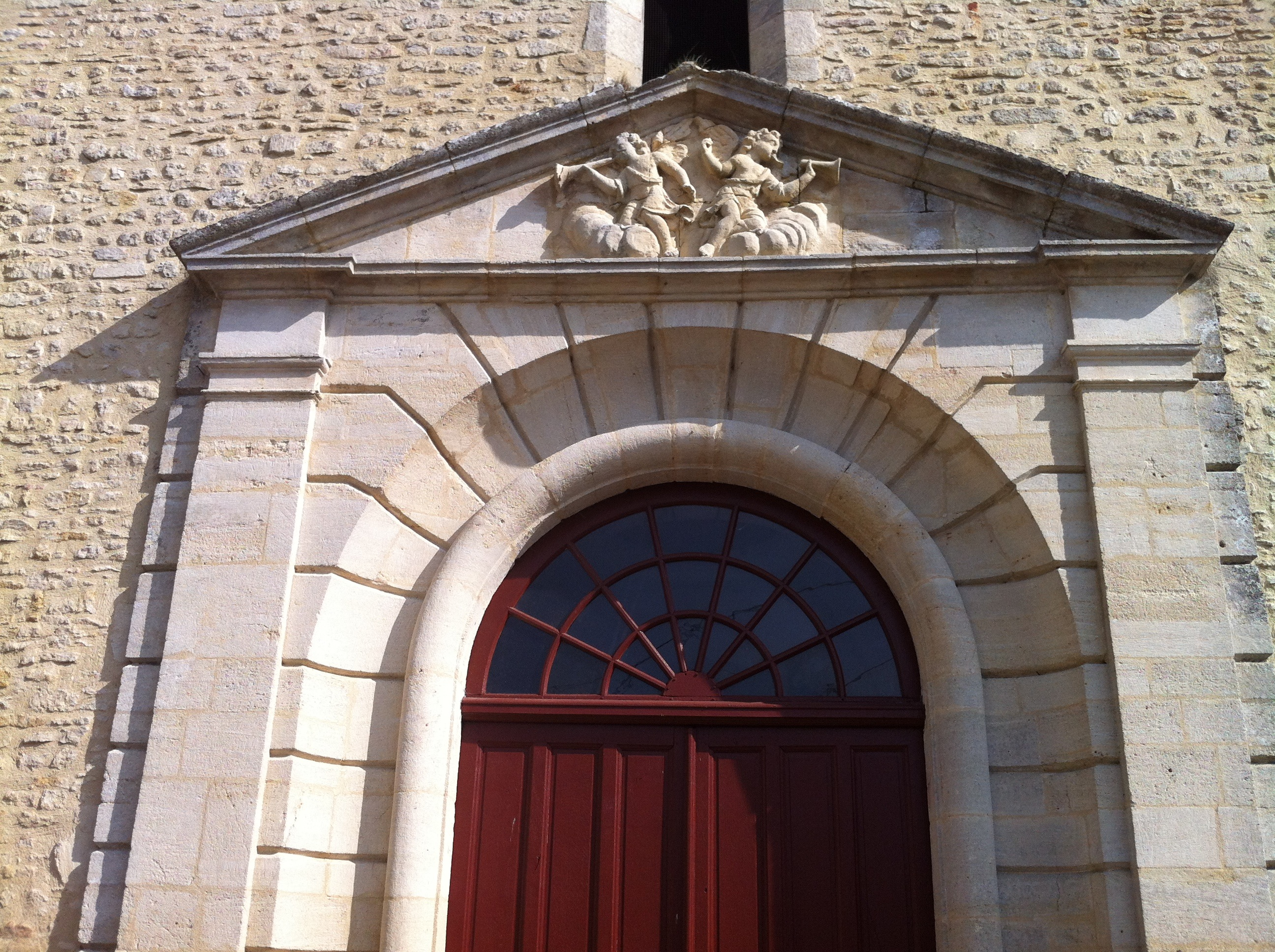 church doorway with angels carved above it